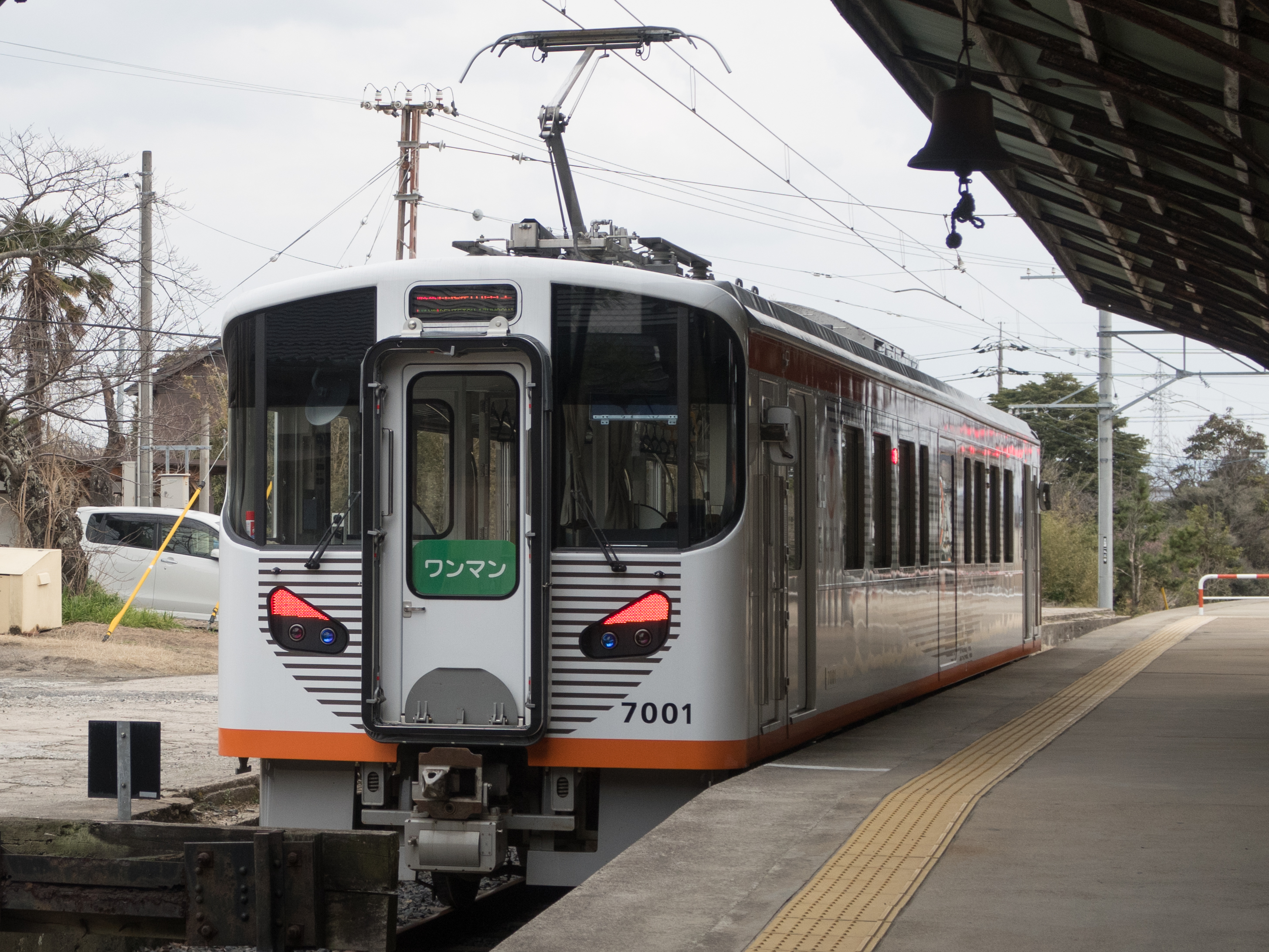 Ichibata Electric Railway 7000 series EMU car 7001 at Izumo-taisha-mae Station